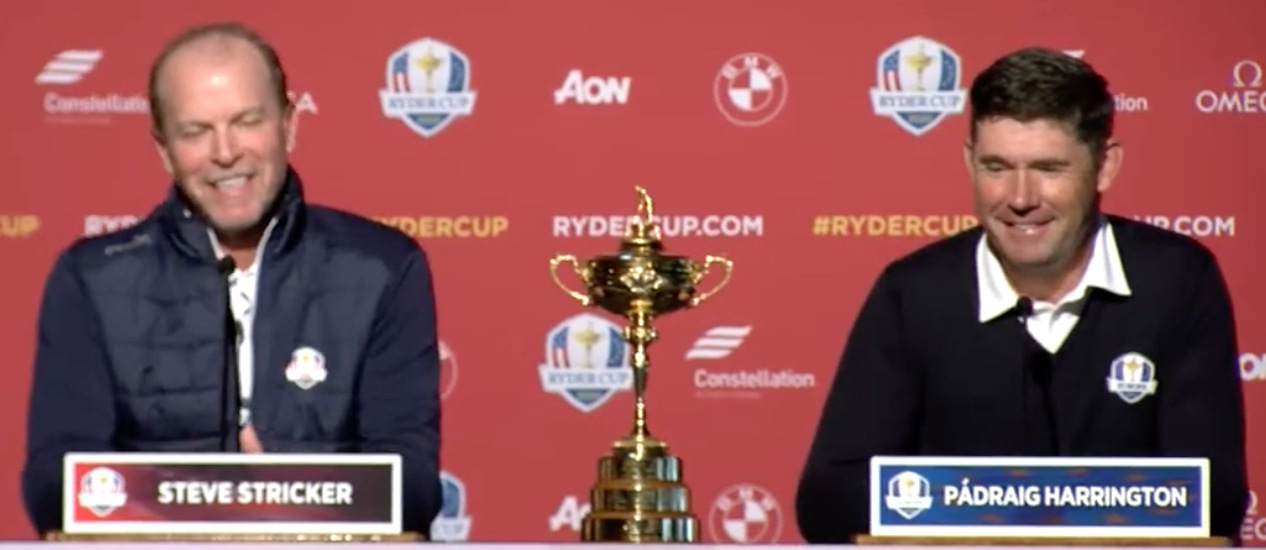 Padraig Harrington and Steve Stricker at the one year to go Ryder Cup 2020 press conference